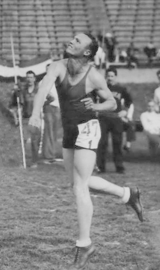 1936 Press Photo Alton Terry, Javelin for Hardin-Simmons College of Texas